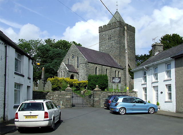 The Church of St. David, Llanddewi-Brefi, Ceredigion. Saint David's Parish Church, Llanddewi-Brefi. For information please visit as well as other sites. The mediaeval tower is particularly noteworthy. (Grade II listed).